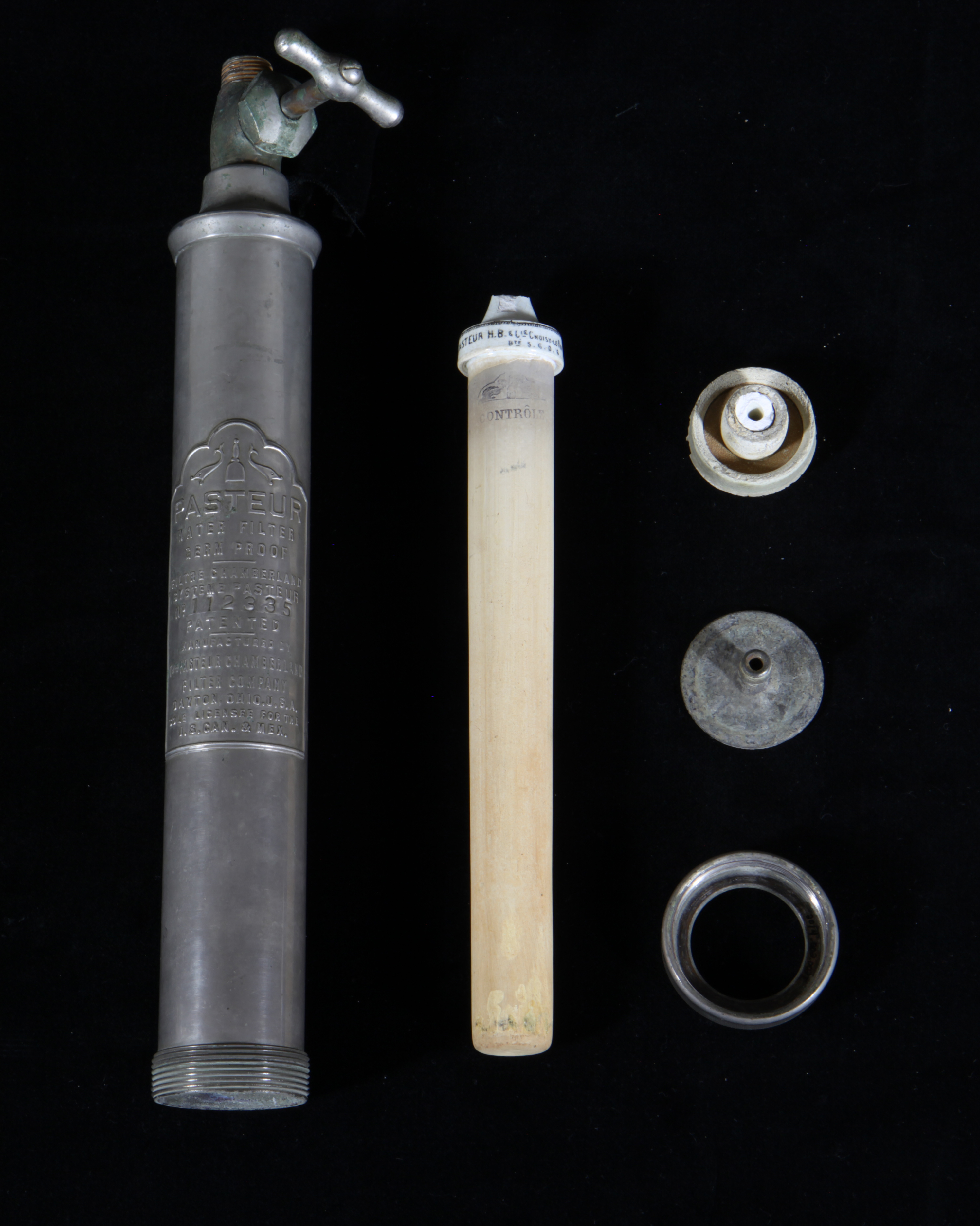 Components of a Pasteur-Chamberland filter from the early 20th century. The porcelain ring (top right) is the broken top of the bisque filter (center).